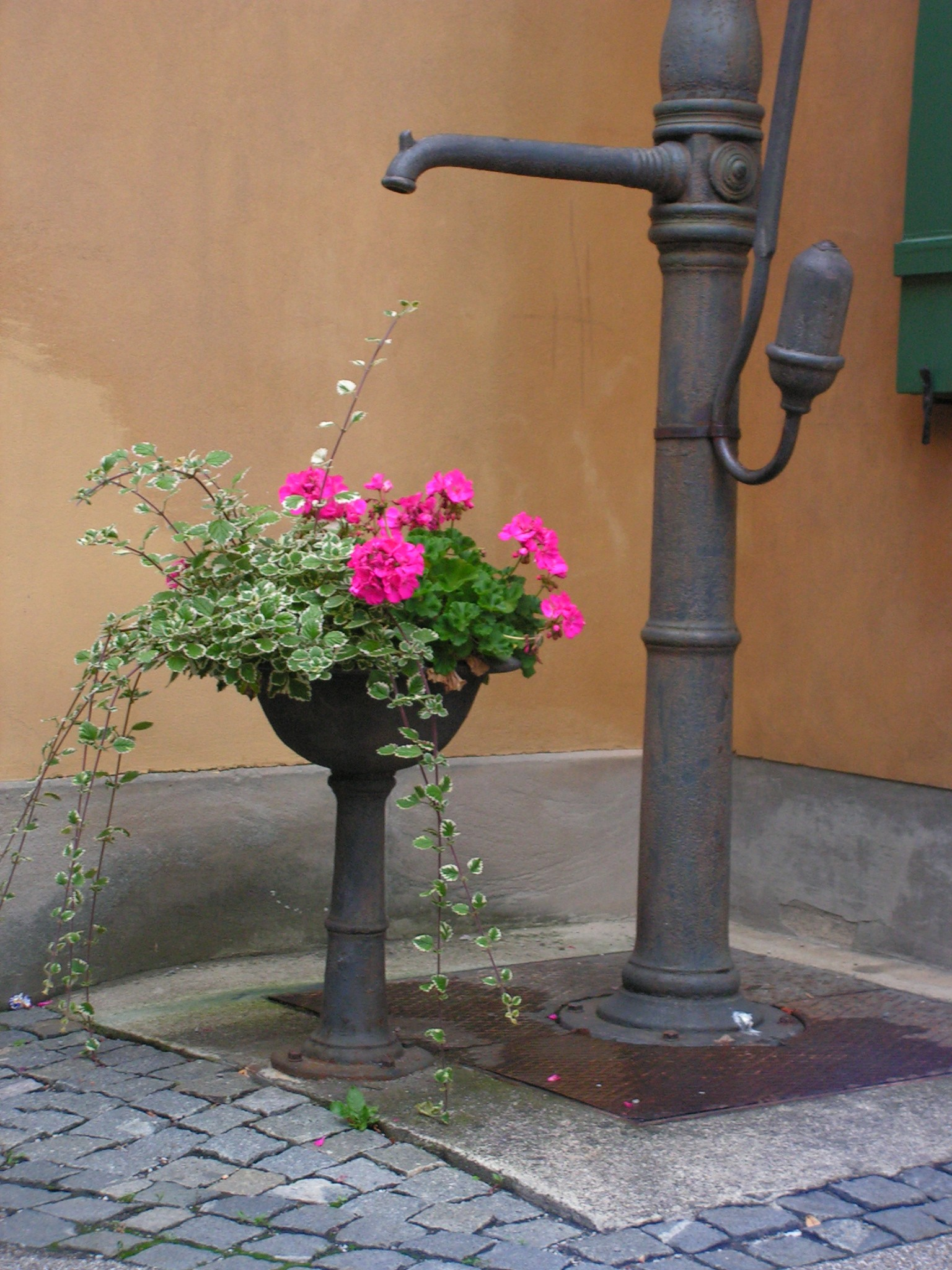 A water pump in the Fuggerei (Augsburg, Germany)